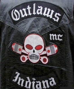 An Outlaws MC jacket